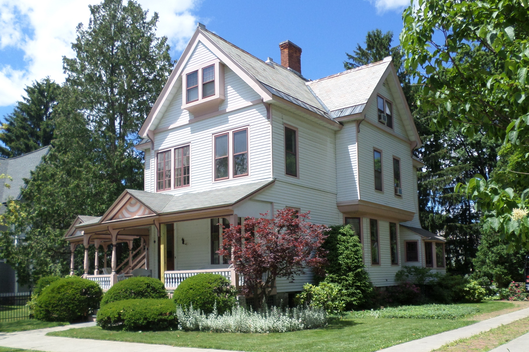 Designed by R. Newton Brezee (1889)